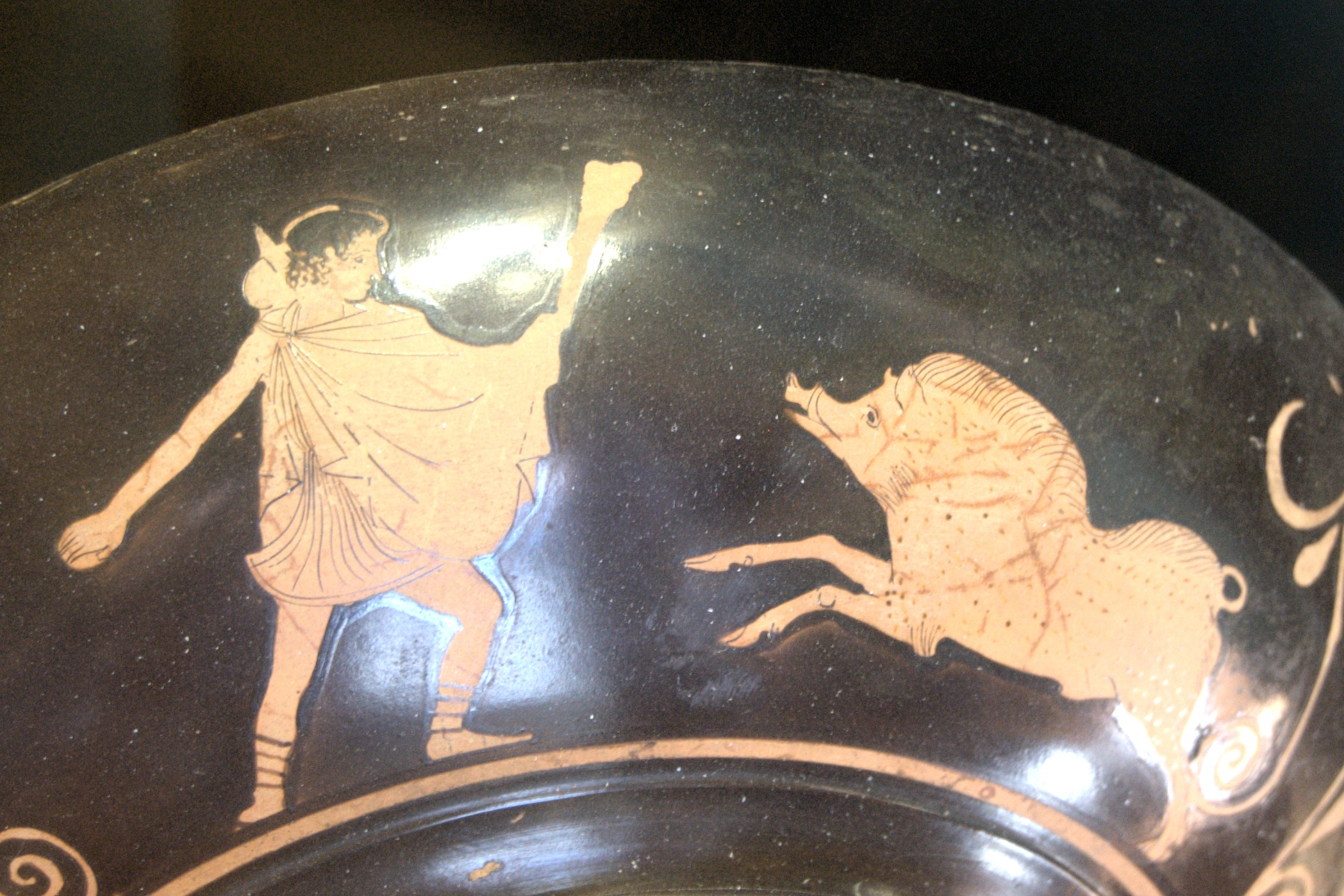 Theseus and the Crommyonian Sow. Attic red-figure low-foot cup, 460–450 BC.